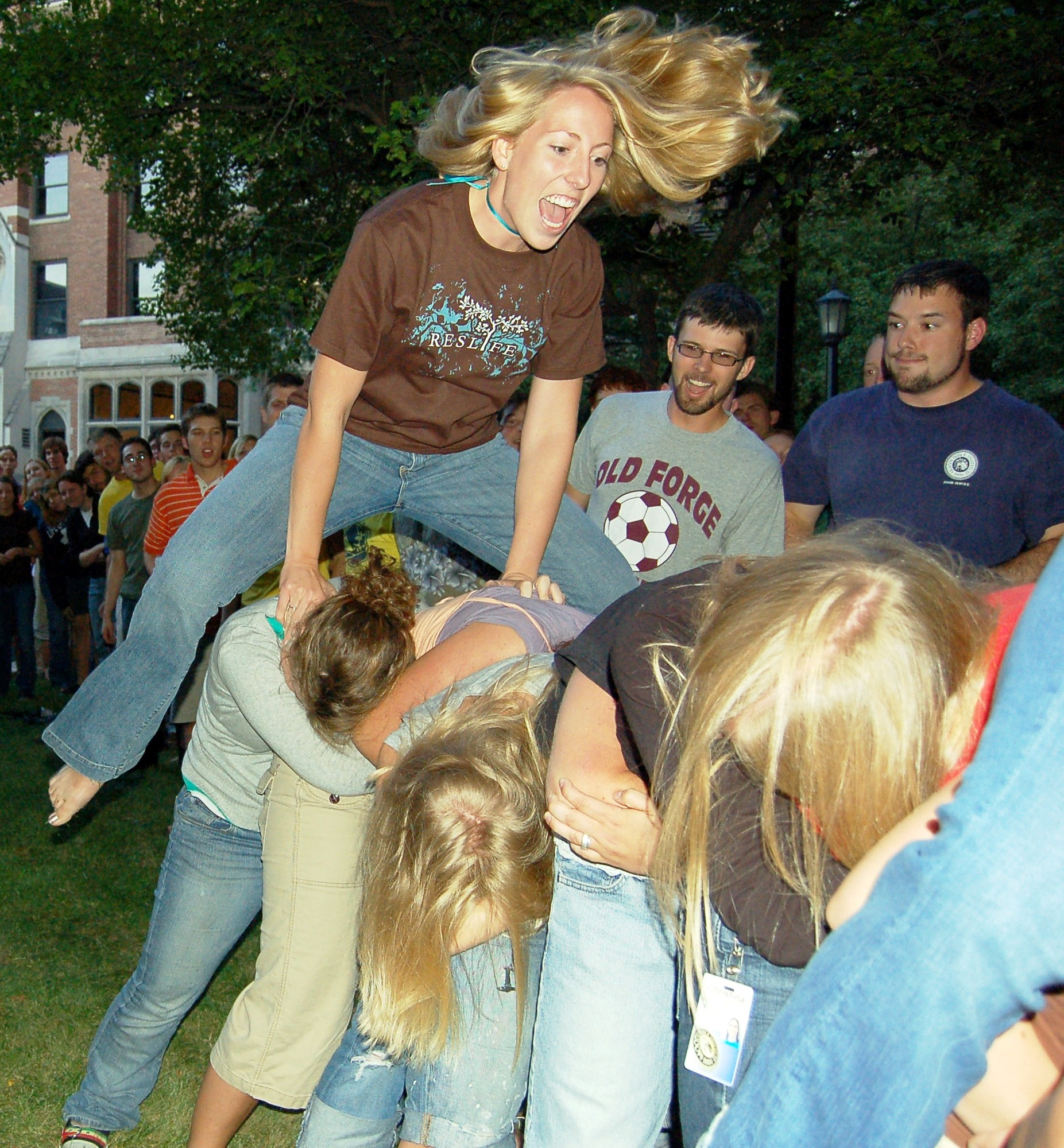 Students of Moody Bible Institute play the traditional game of "Buck Buck" after the annual vespers service on the Sunday prior to the start of classes while Russ Shumaker casually observes from the sidelines. Moody Bible Institute, Chicago, IL, 2006.